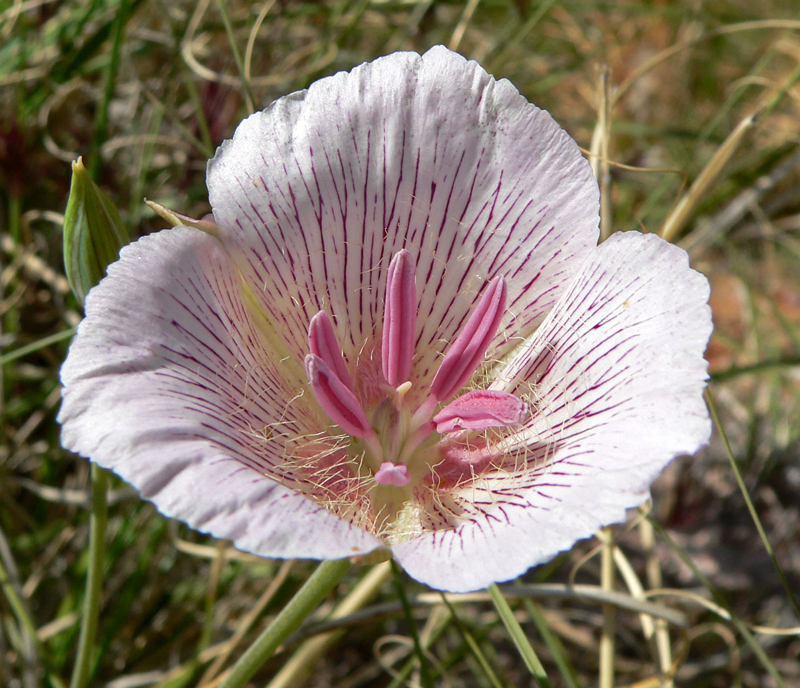 Photo of Calochortus striatus (alkali Mariposa lily) in Calico Basin west of Las Vegas, Nevada